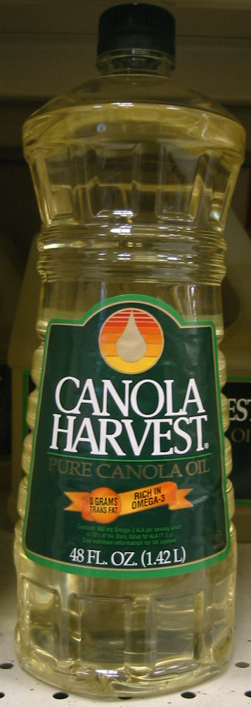 Canola Oil, bottle This image was created by Whitebox, and is licensed under the following license